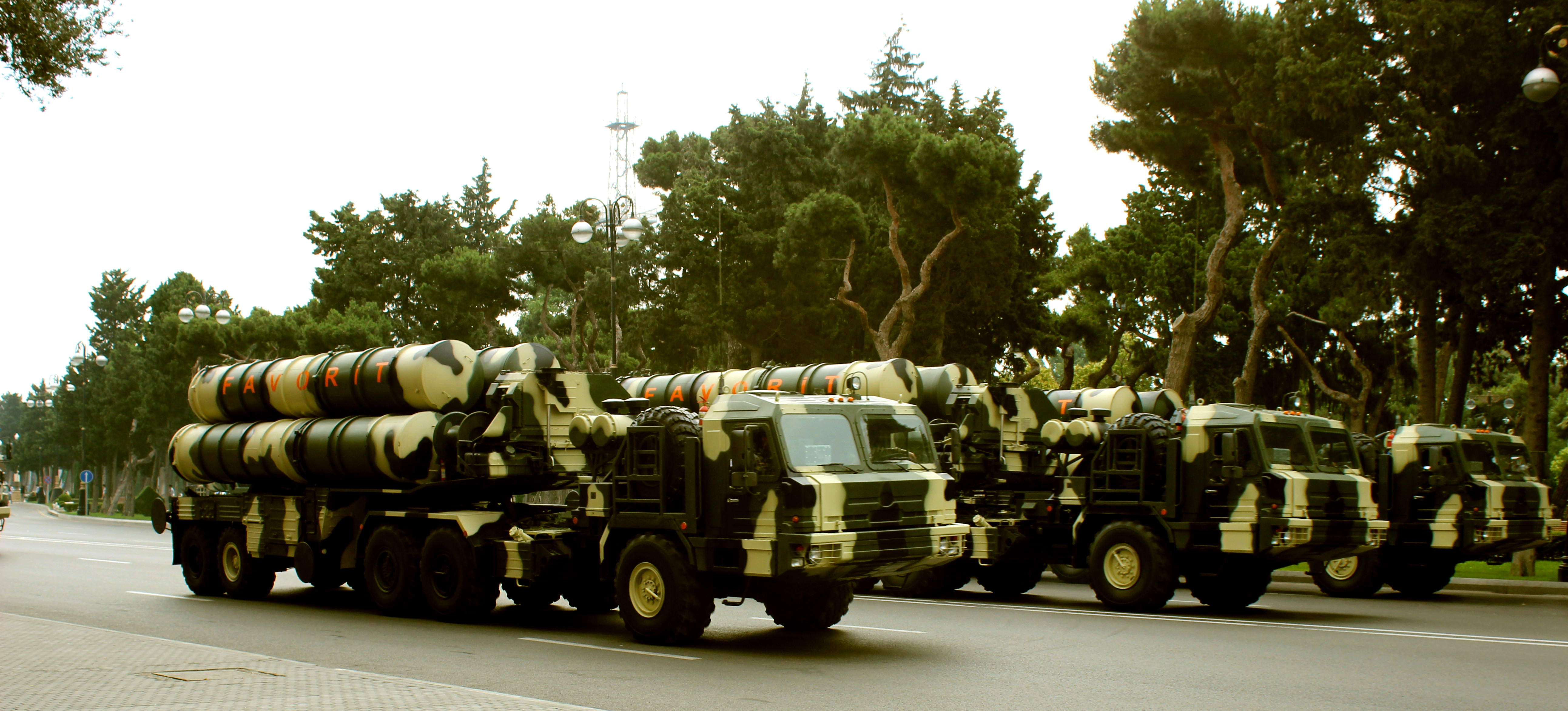 Military parade in Baku 2013